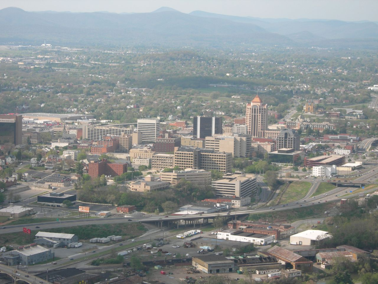 View of downtown Roanoke, Virginia, United States, from the Star.